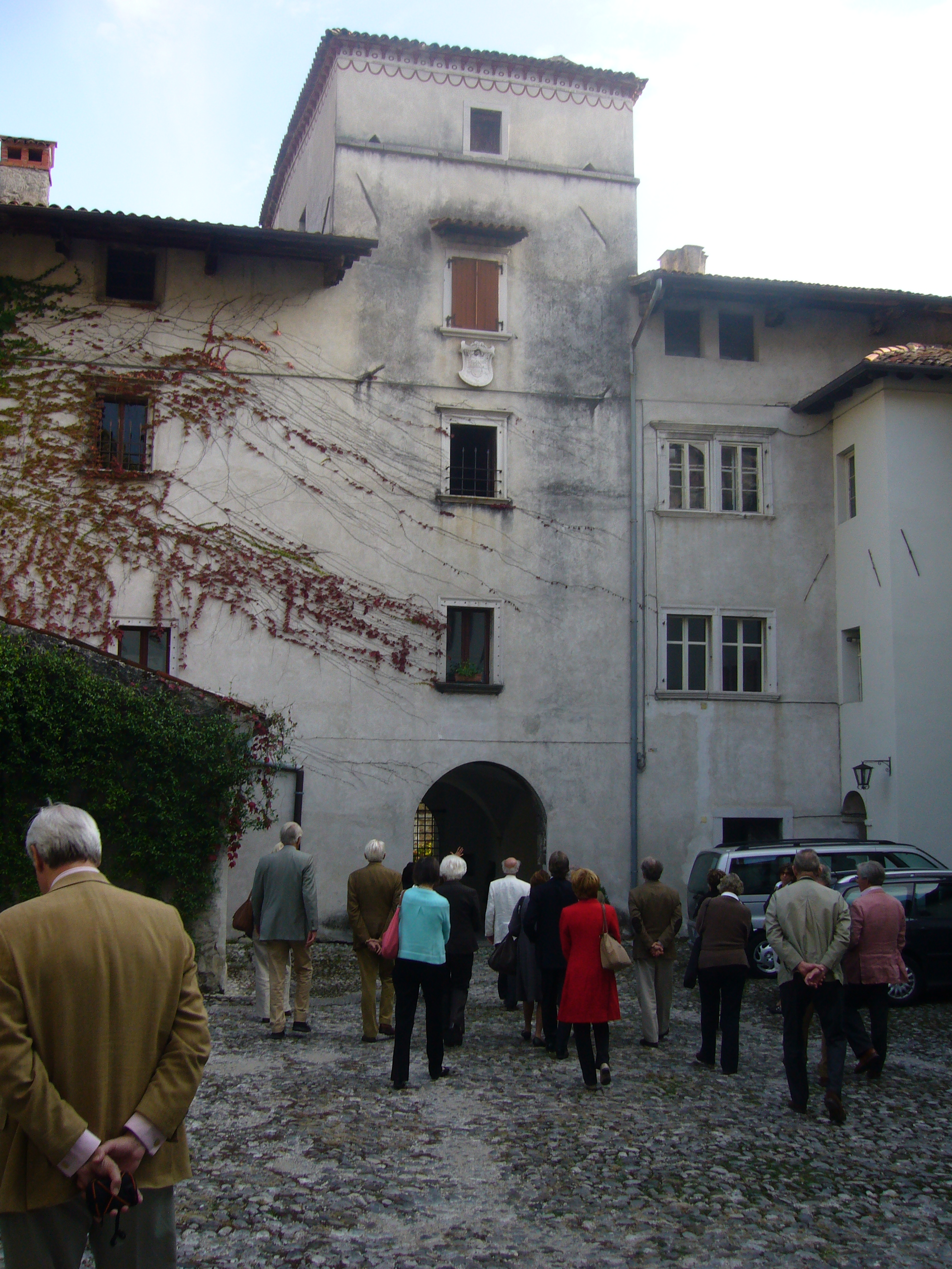 Palazzo Lantieri, Gorizia, Italy